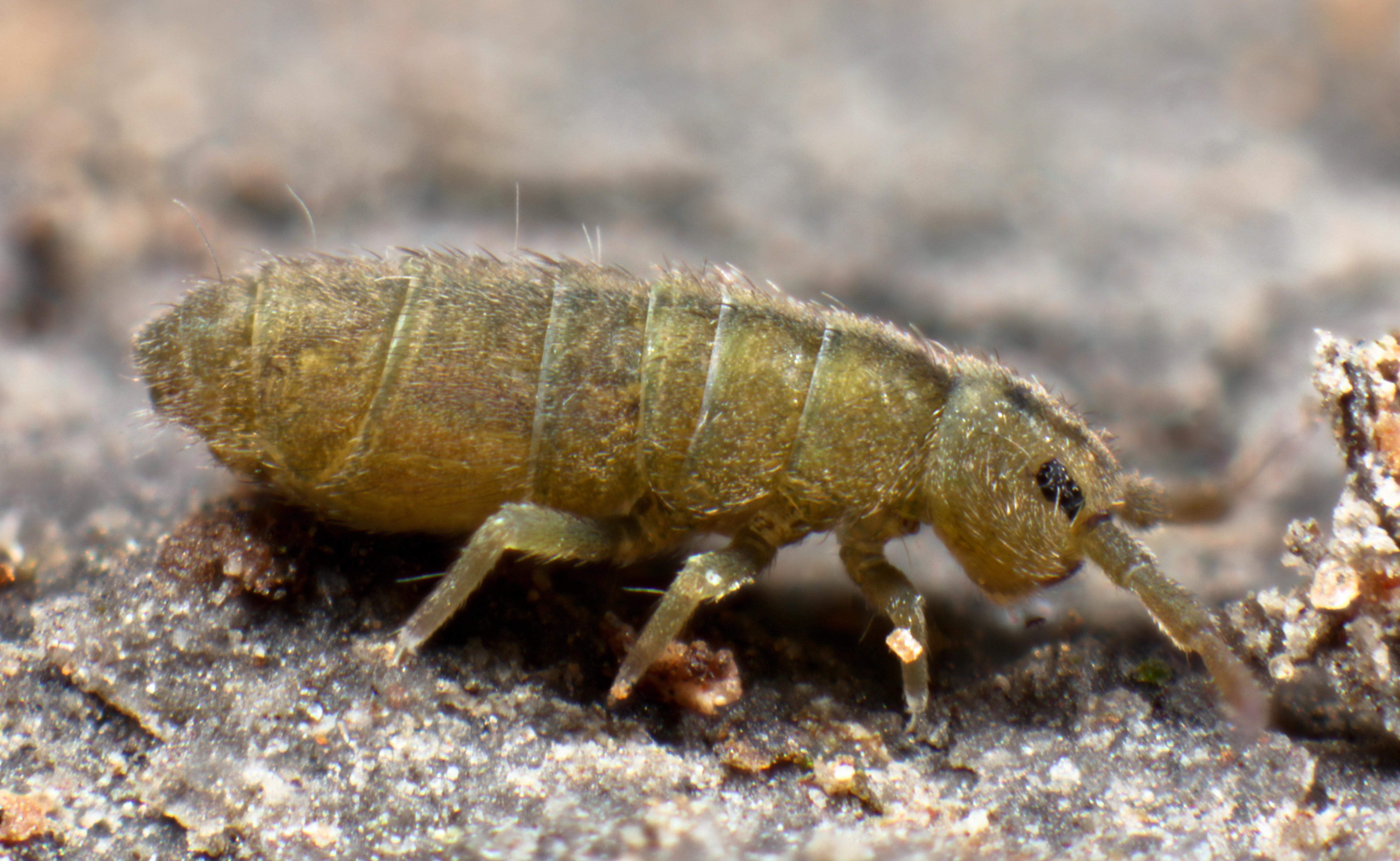 Isotomurus palustris from the UK.